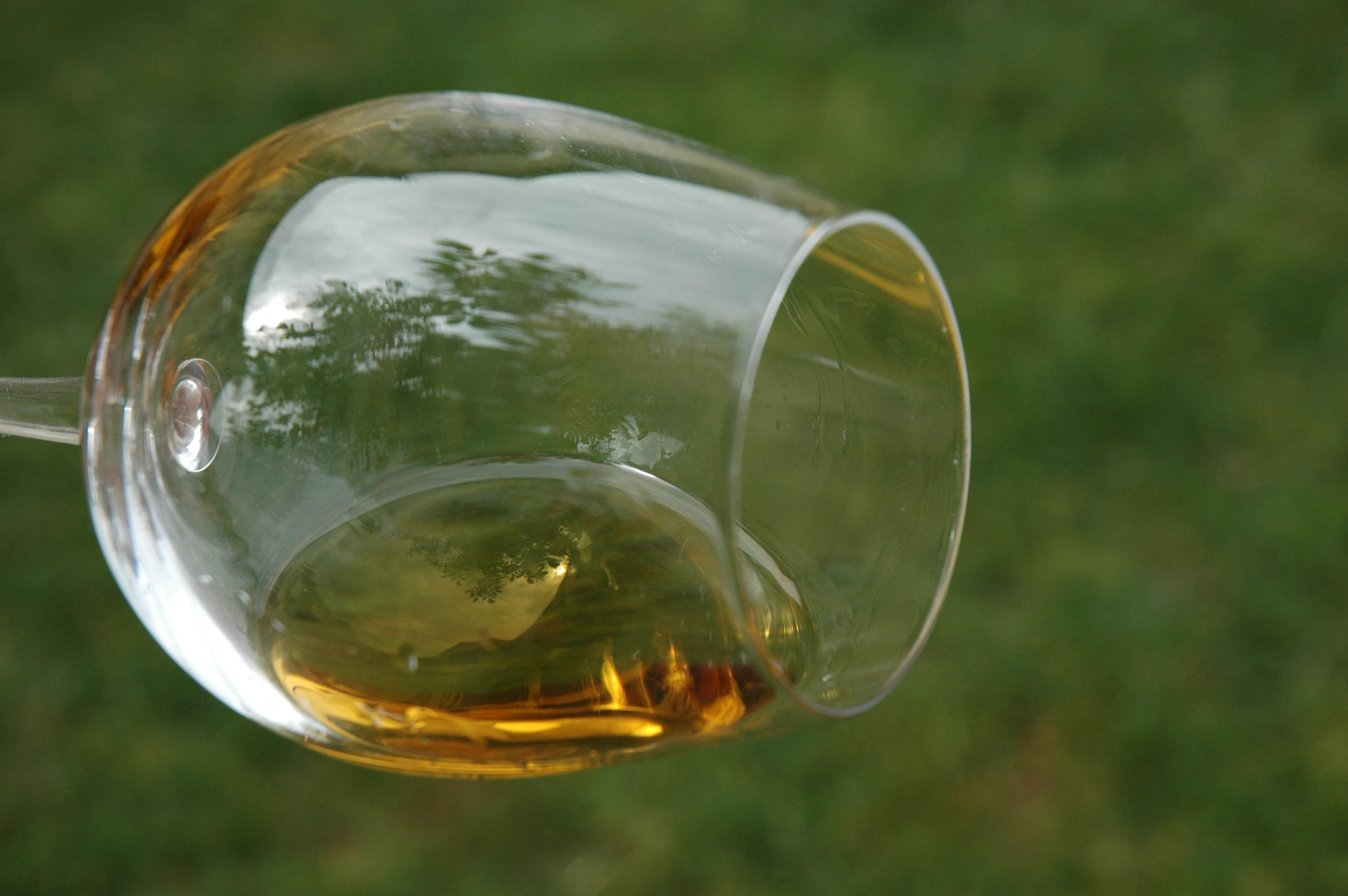 Tokaji Tasting